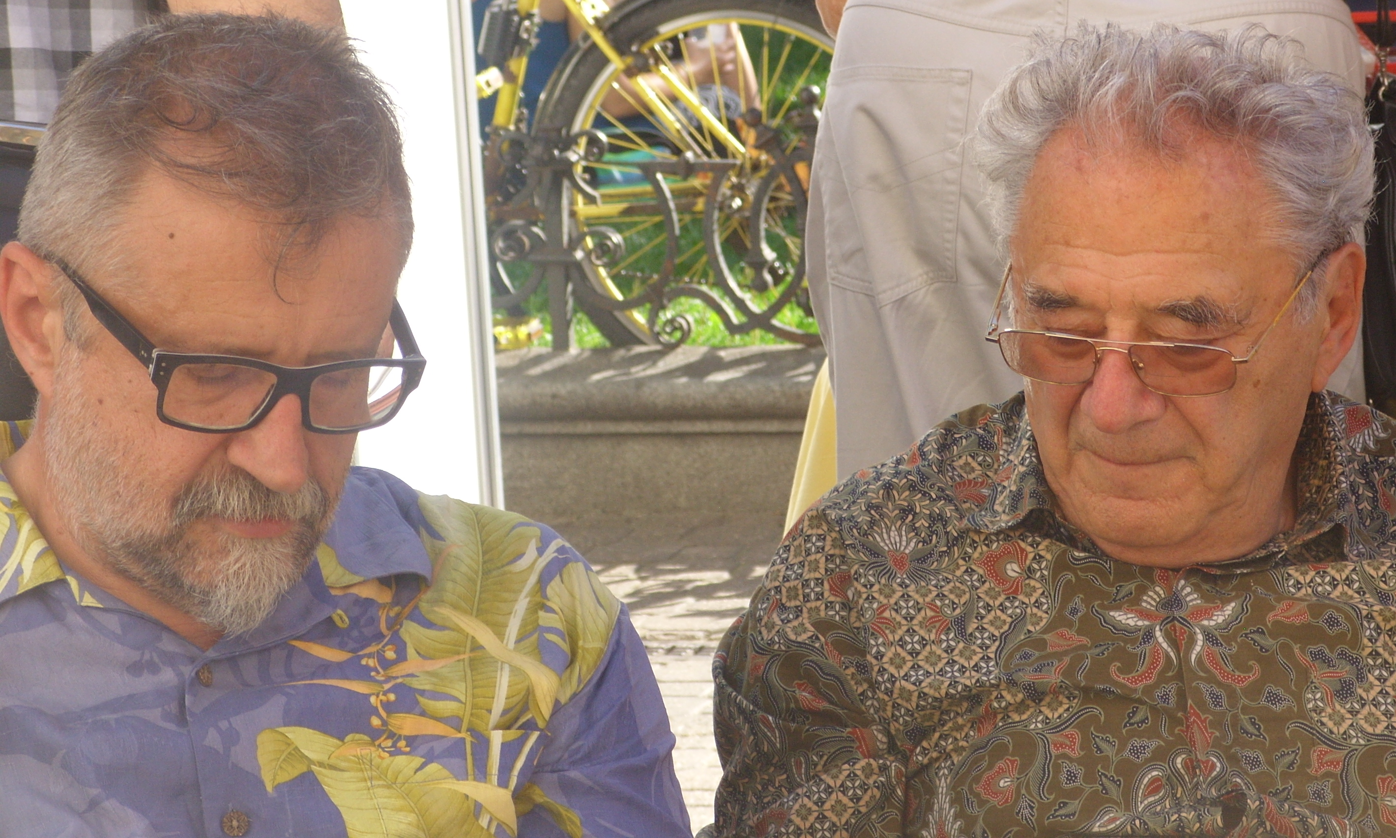 András Wahorn w Miklós Szinetár